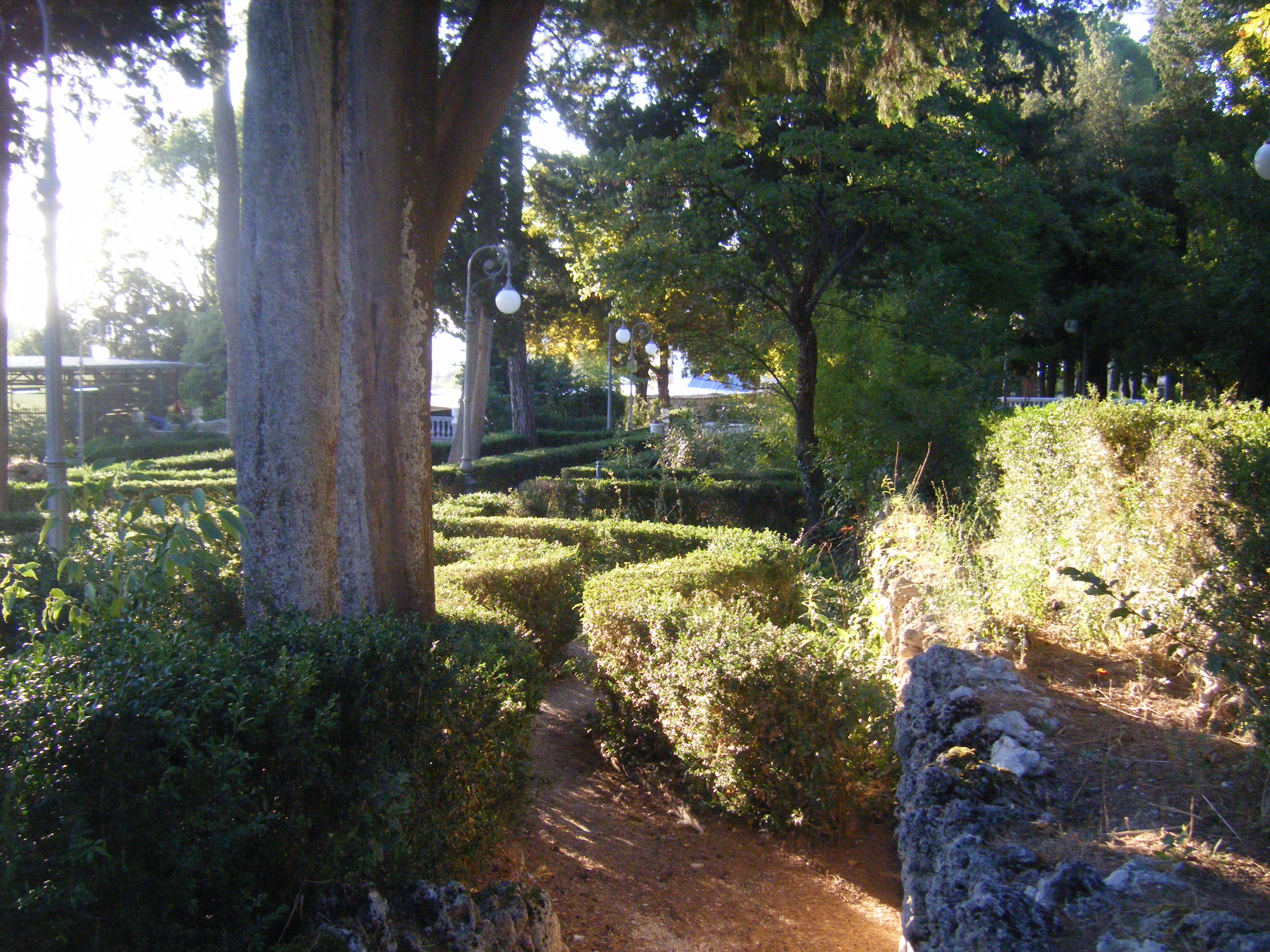 Villa de Capoa in Campobasso, Italy